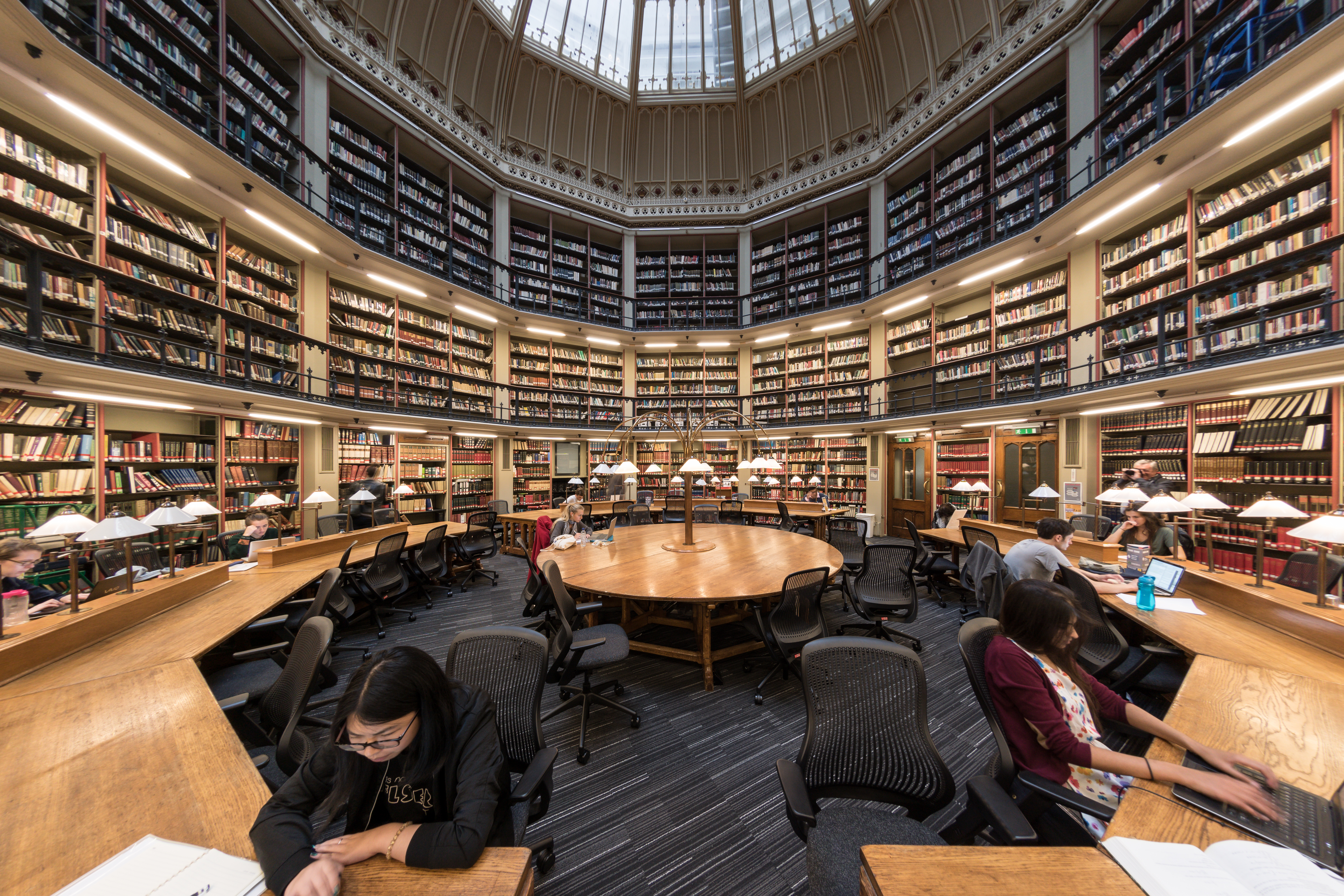 The Maughan Library round reading room. The original fisheye photo has been defished with Lightroom.